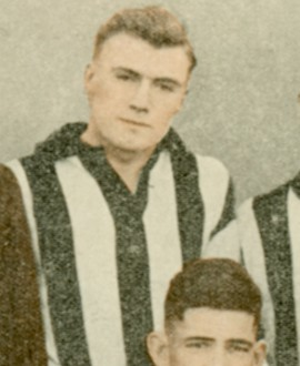 Photo of Wally Tyrrell in 1934